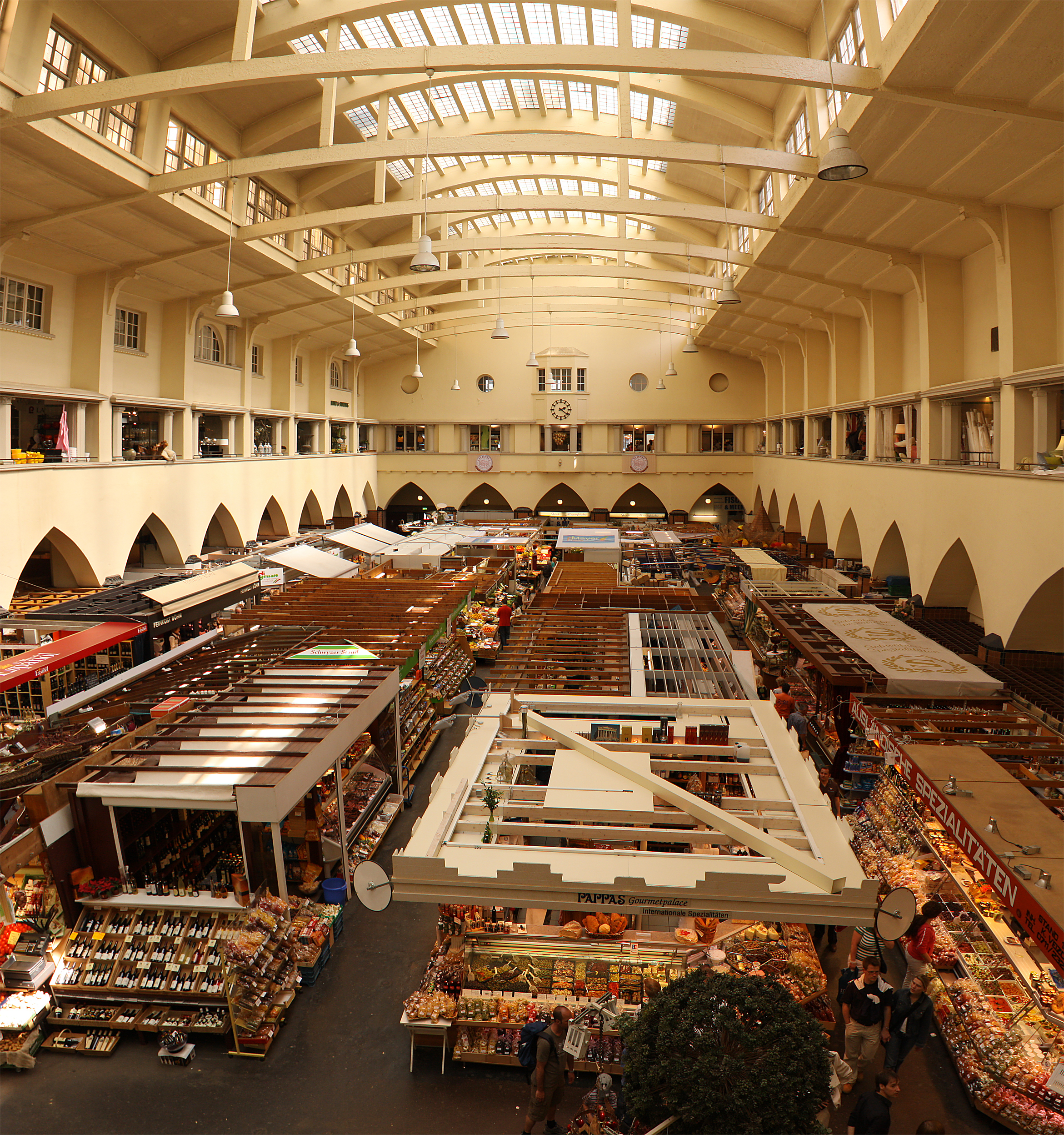 interior view of the market hall in Stuttgart, Germany